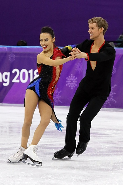 Madison Chock and Evan Bates at the 2018 Winter Olympic Games in PyeongChang